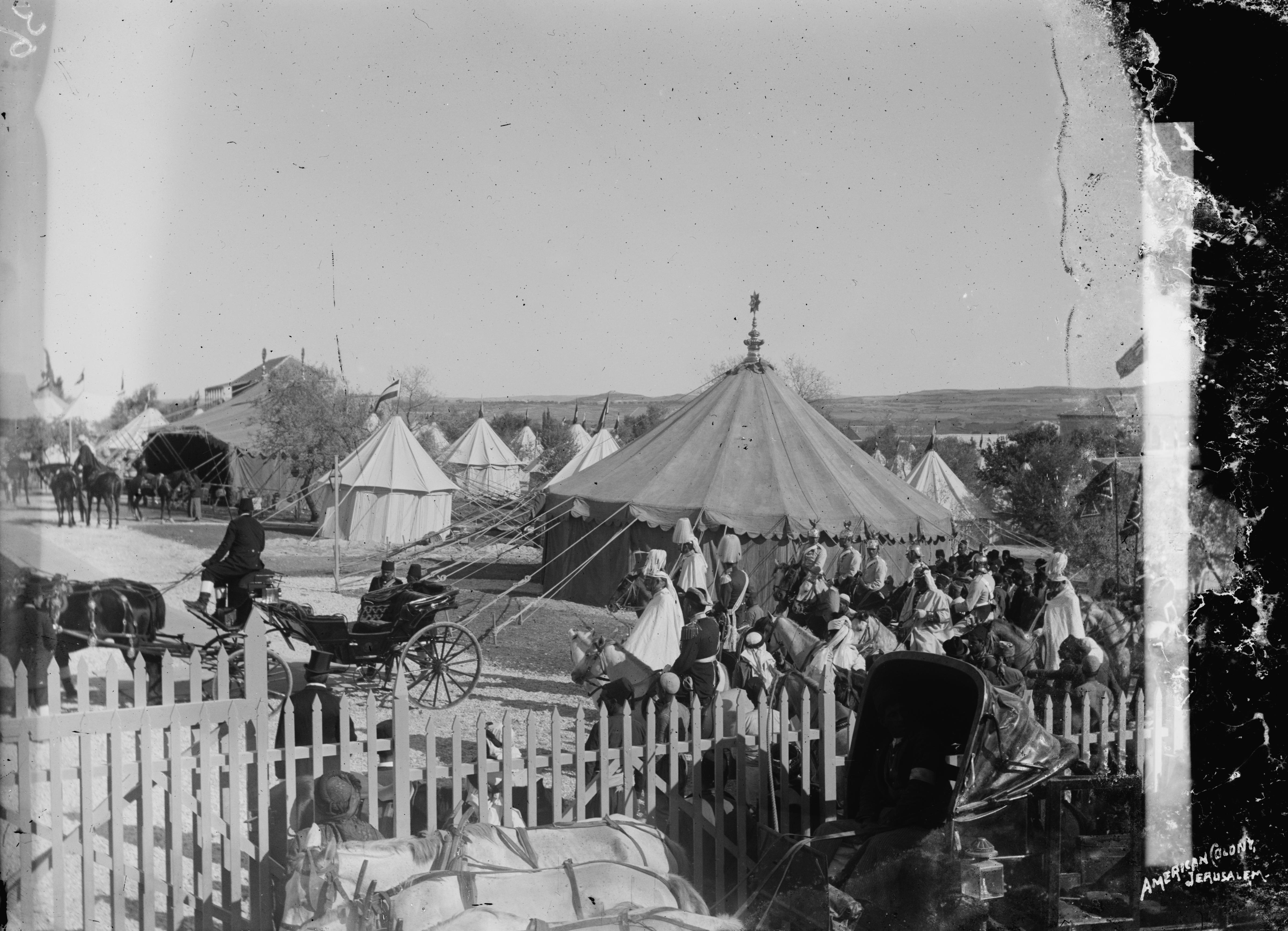 State visit to Jerusalem of Wilhelm II of Germany in 1898. Emperor and Empress.